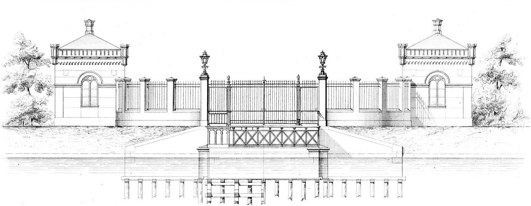 Utrechtse Barrière (Utrecht Barrier), Amsterdam, front elevation. 1858-1860 (construction).